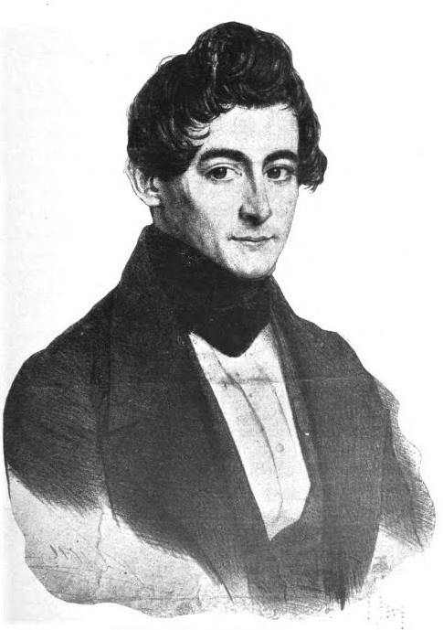 Portrait of American missionary, poet, and writer Adrien Rouquette (1813-1887). From the frontispiece to Life of the Abbé Adrien Roquette [sic] "Chahta-Ima", compiled and Edited by Mrs. S. B. Elder, Published under auspices of Bienville Assembly, Knights of Columbus, New Orleans, 1913.